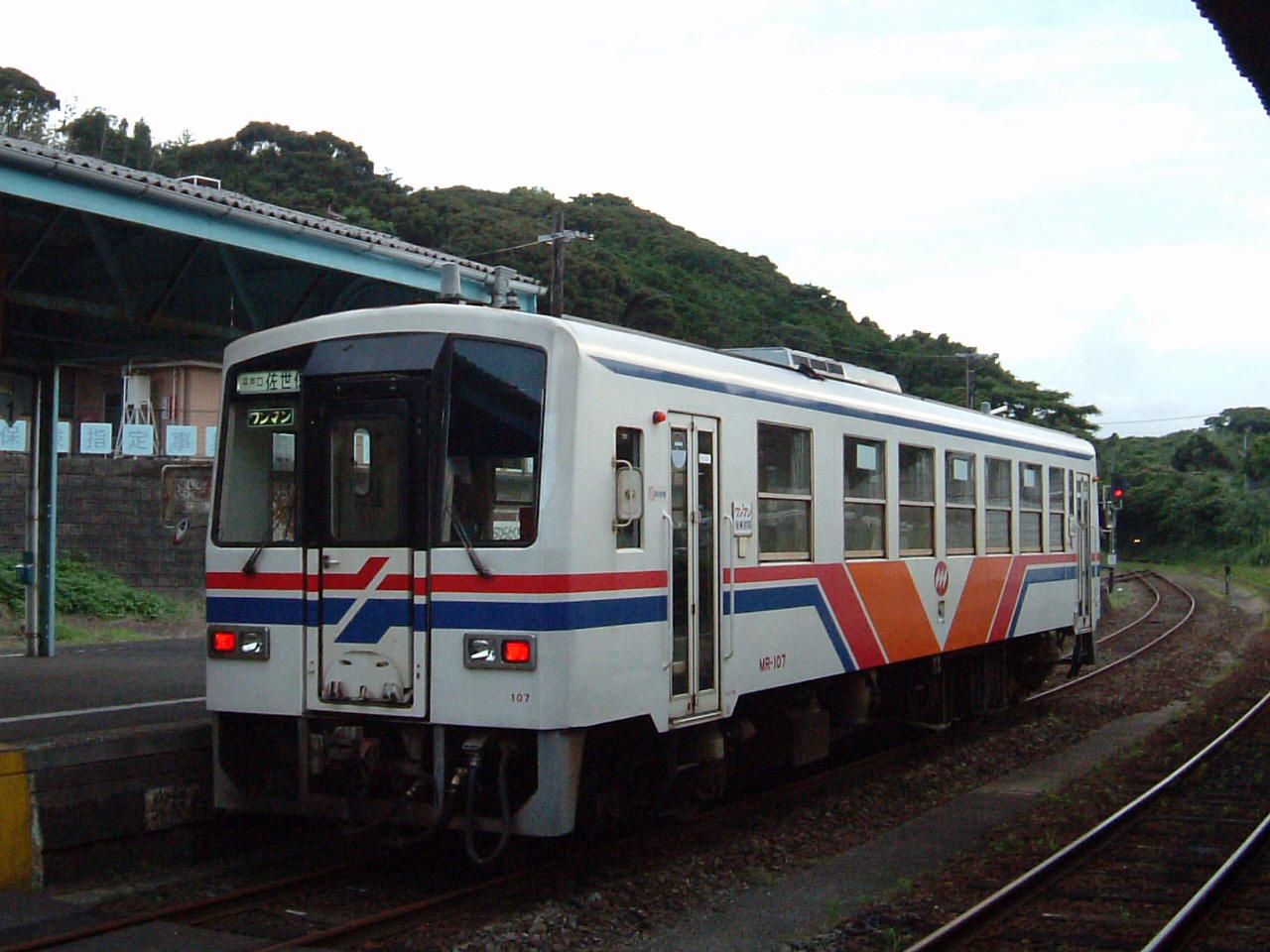 Matsuura Railway MR-100 DMU at Tabira-Hiradoguchi Station